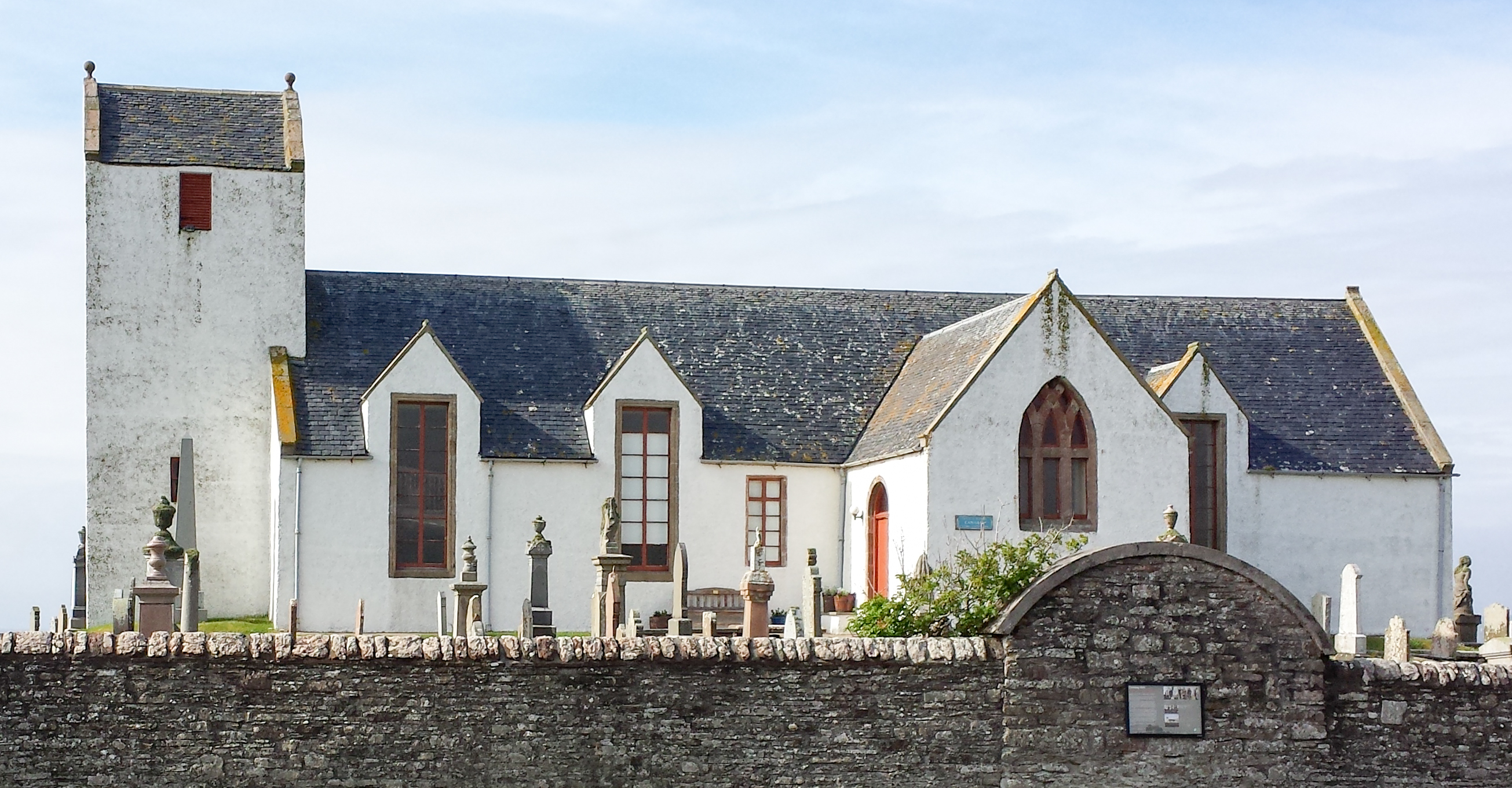 Canisbay Parish Church. This church was used by Queen Elizabeth, the Queen Mother for a period of 50 years when she stayed at the nearby Castle of Mey.[1]